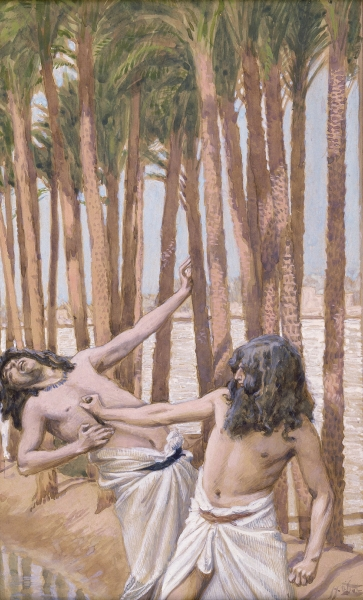 Moses Slays an Egyptian, c. 1896-1902, by James Jacques Joseph Tissot (French, 1836-1902), gouache on board, 11 3/16 x 6 3/4 in. (28.5 x 17.3 cm), at the Jewish Museum, New York